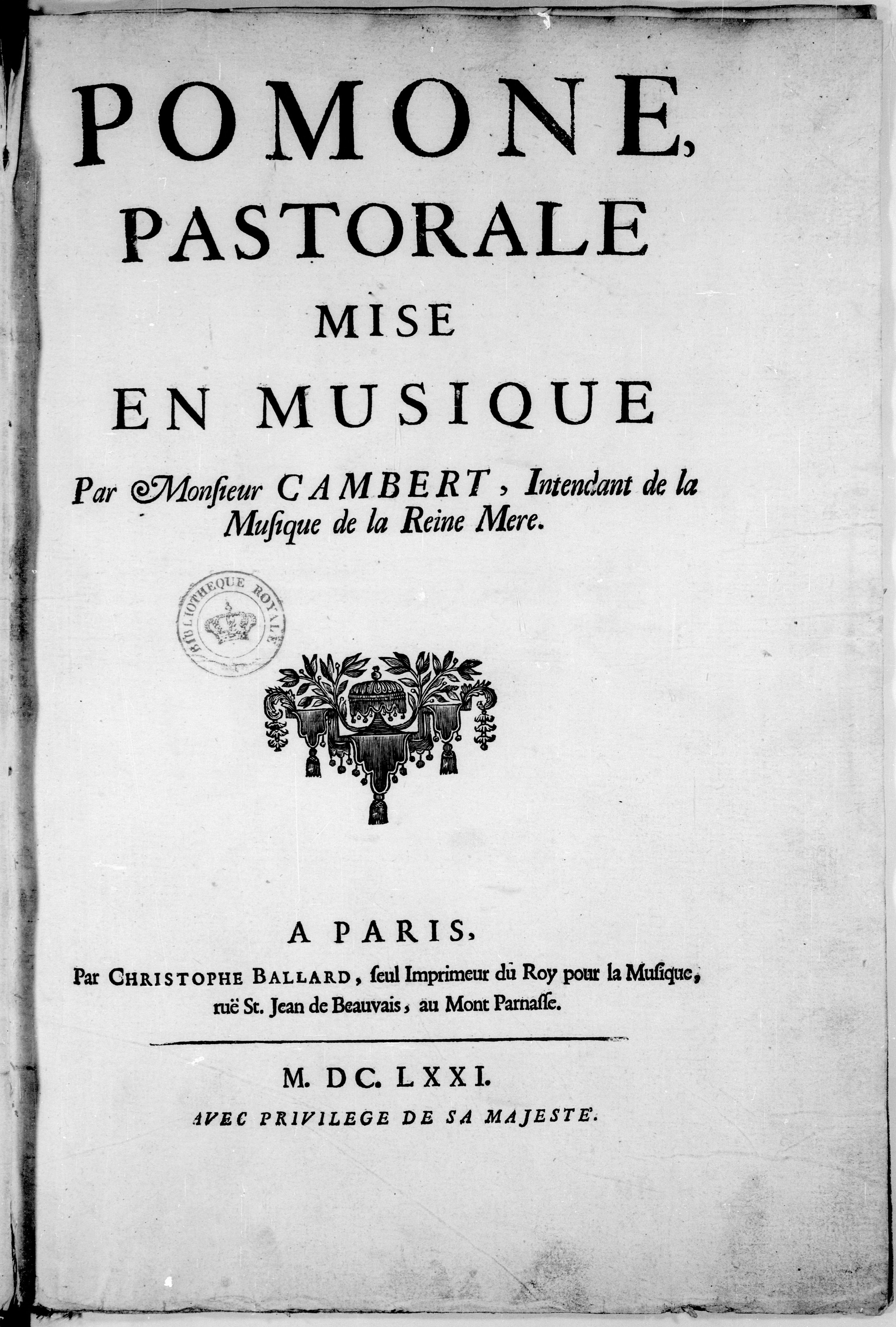 Title page of the (partial) score of the French opera Pomone with music by Robert Cambert as published by Christophe Ballard in Paris in 1671